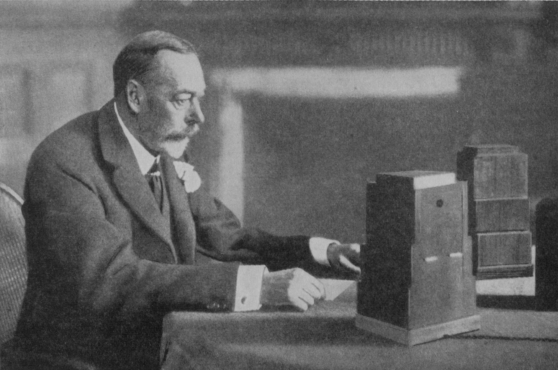 The King at the microphone, Christmas 1934. King George V making his annual Christmas Broadcast| to the nation. Approximate date of photograph: Christmas 1934